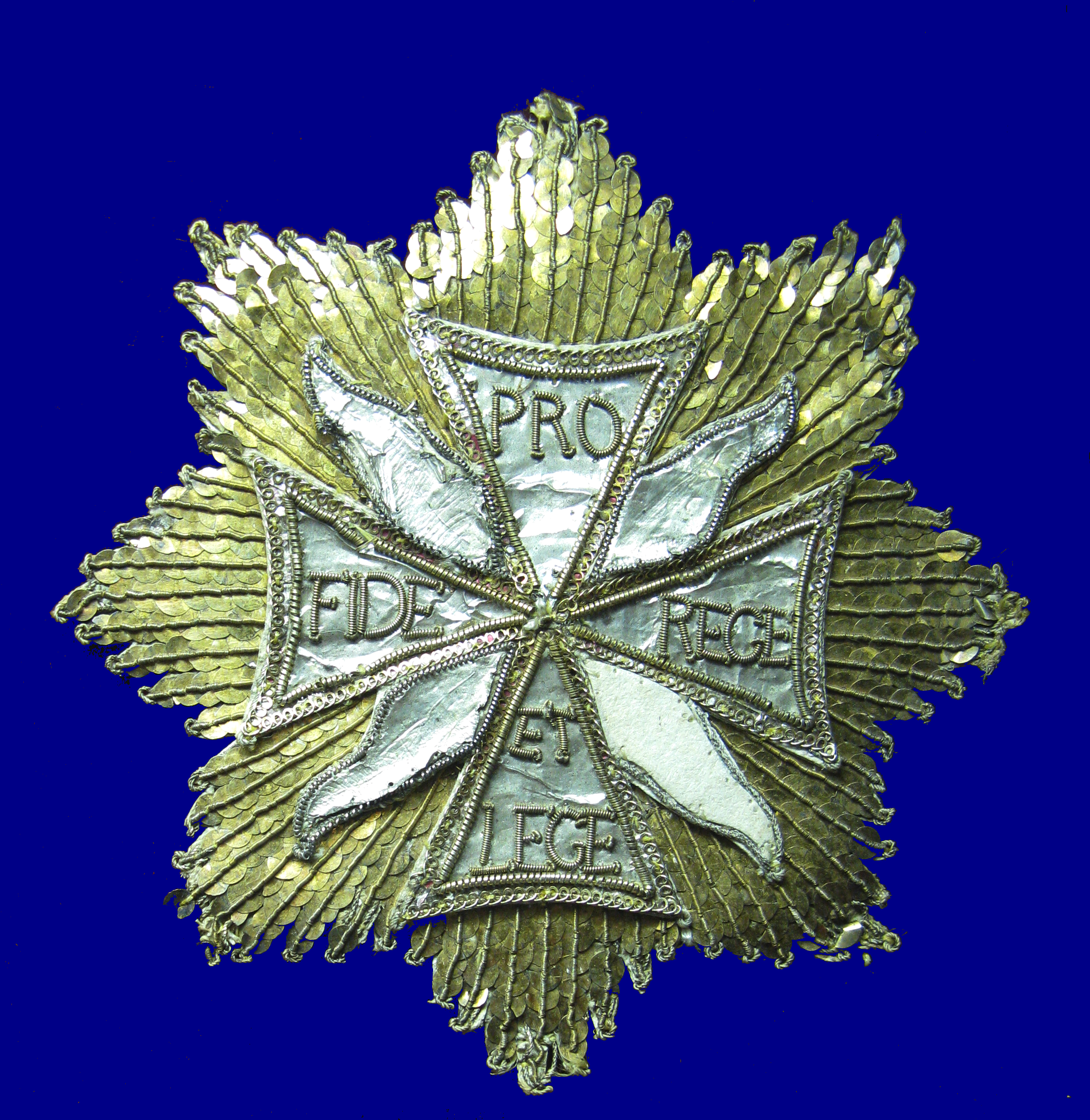 Star of the Order of the White Eagle from XVIII centur